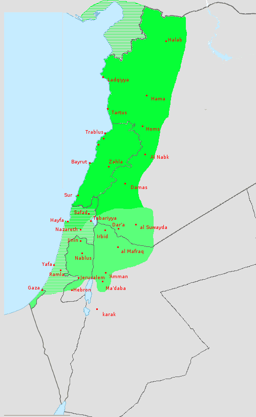 Map of the Levantine Arabic speaking area. Light green corresponds to Southern Levantine. In dashed areas, Levantine is spoken along with another language (Hebrew, Turkish, Kurdish...).